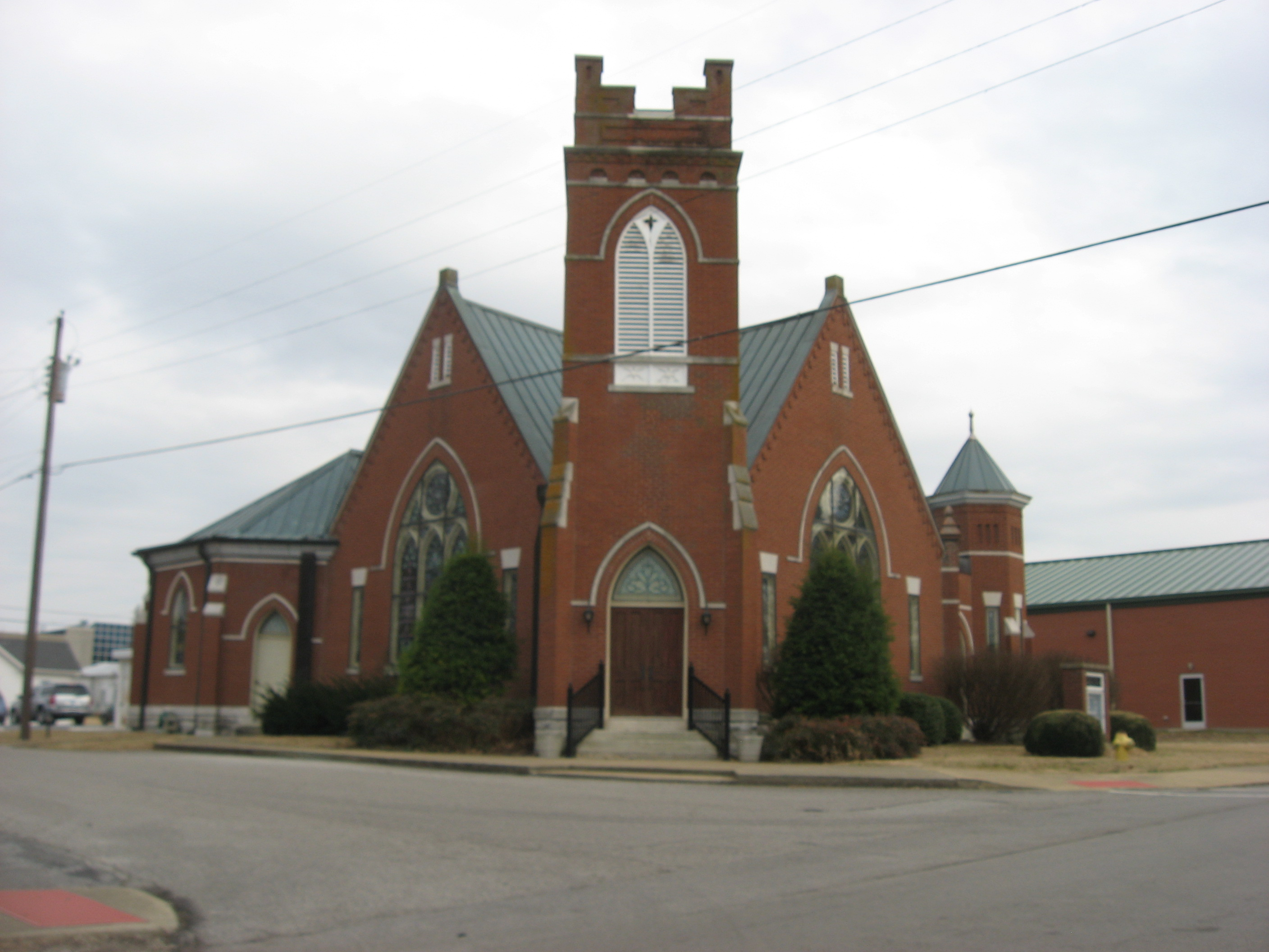 Front of the Smiths Grove Baptist Church, located on the southeastern corner of the junction of Main (Kentucky Route 101) and Second Streets in Smiths Grove, Kentucky, United States. Built in 1898, it is listed on the National Register of Historic Places.